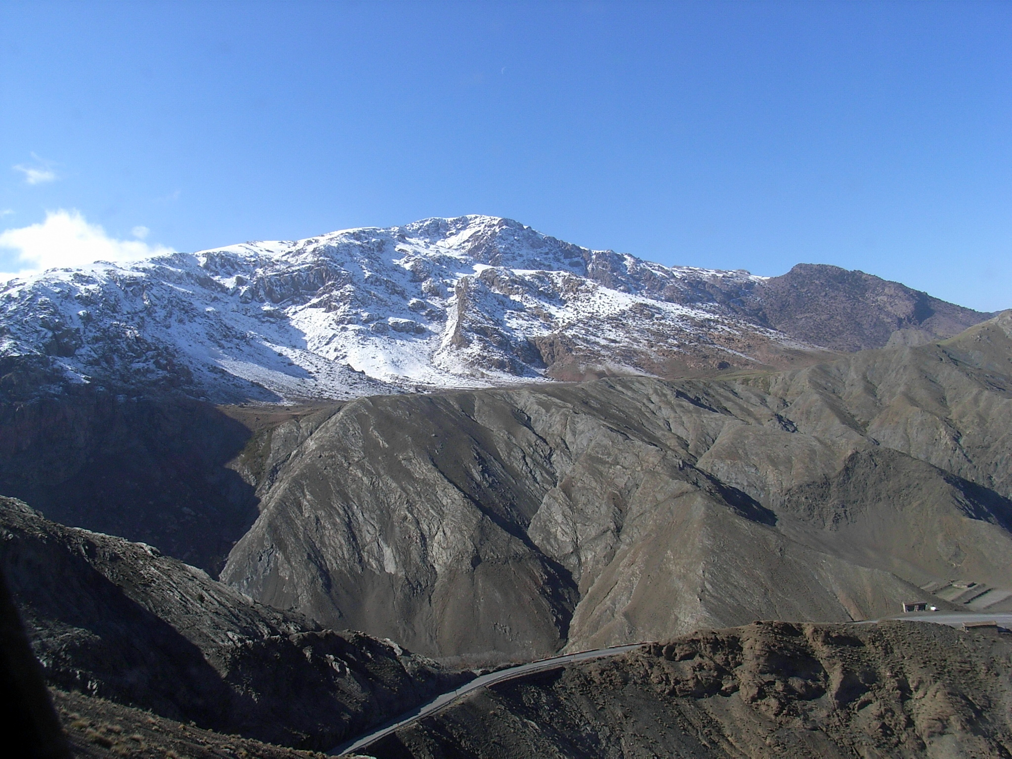 Mountain Pass in the High Atlas. Route N9 between Ouarzazate and Marrakech, near Taddert.